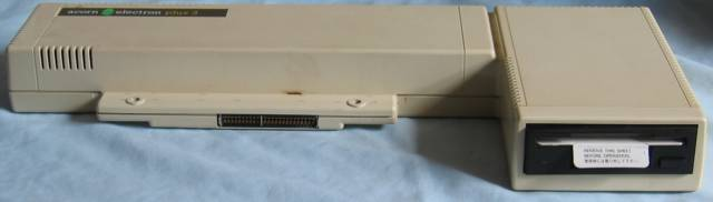 Acorn ALA13 Electron Plus 3 (front).The Acorn Electron Plus 3 is a 3.5" disc upgrade for the Acorn Electon. The Plus 3 has a WD1770 disc controller and ADFS file system in ROM. The Acorn Electron Plus 3 User Guide is available HERE . The front view of the Plus 3 shows the connector which plugs straight into the expansion bus on the back of an Electron. The 3.5" disc drive is on the right.